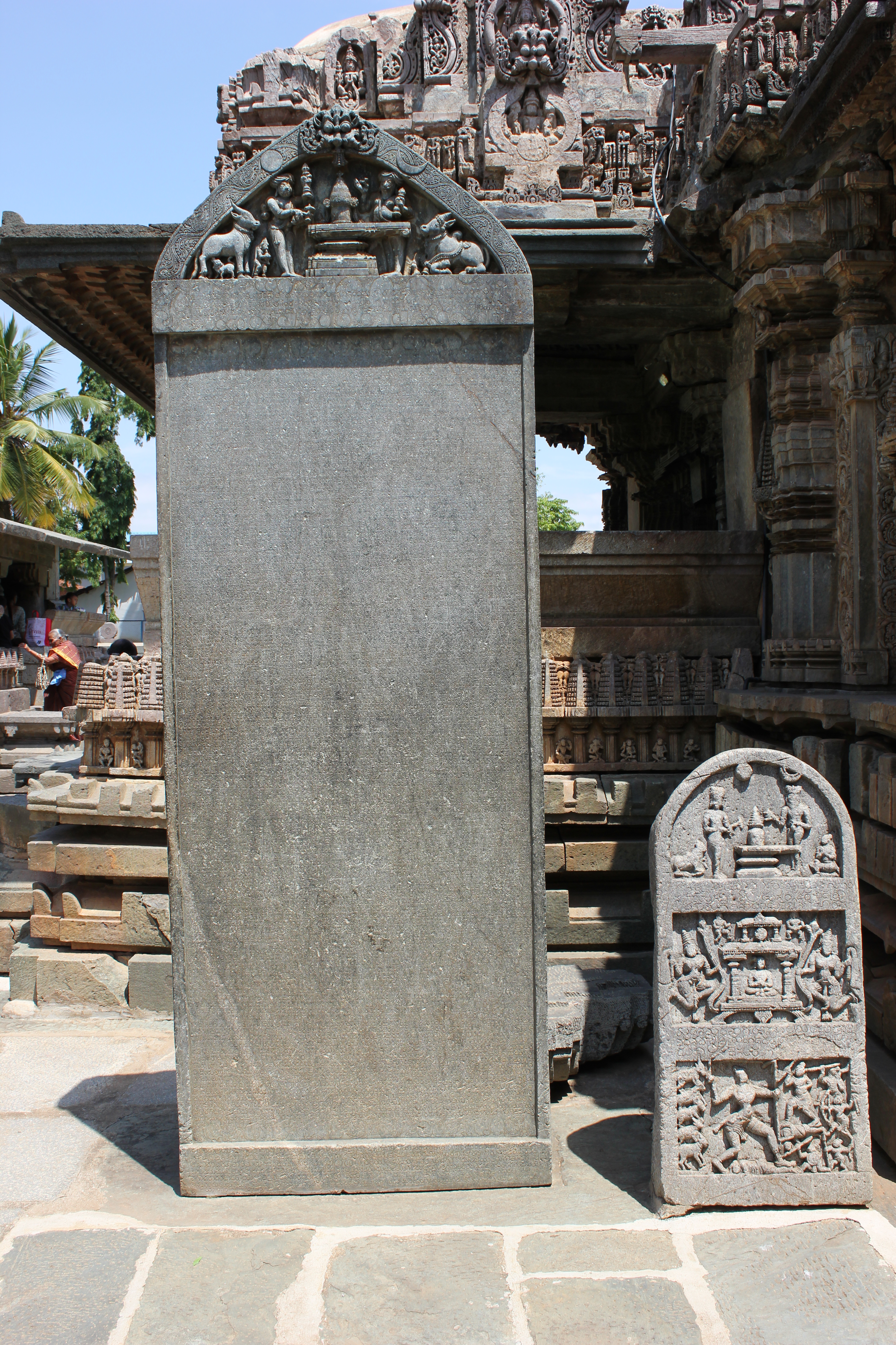 This photograph was taken by self (Dinesh Kannambadi) at the Amrutesvara temple (also spelt Amruteshvara or Amruteshwara) in Amruthapura, Chikkamagaluru district, Karnataka state, India. The temple was built in 1196 C.E. during the rule of the Hoysala King Veera Ballala II. Ref soruce:Epic Narratives in the Hoysaḷa Temples: The Rāmāyaṇa, Mahābhārata, and Bhāgavata Purāṇa in Haḷebīd, Belūr, and Amṛtapura,Kirsti Evans , BRILL, 1997; Source-Epigraphia Carnatica: Inscriptions in the Kadur District, By Benjamin Lewis Rice, chapter-Text of inscriptions in Roman characters,page 222, Insc #45; chapter-list of inscriptions in chronological order, page 4